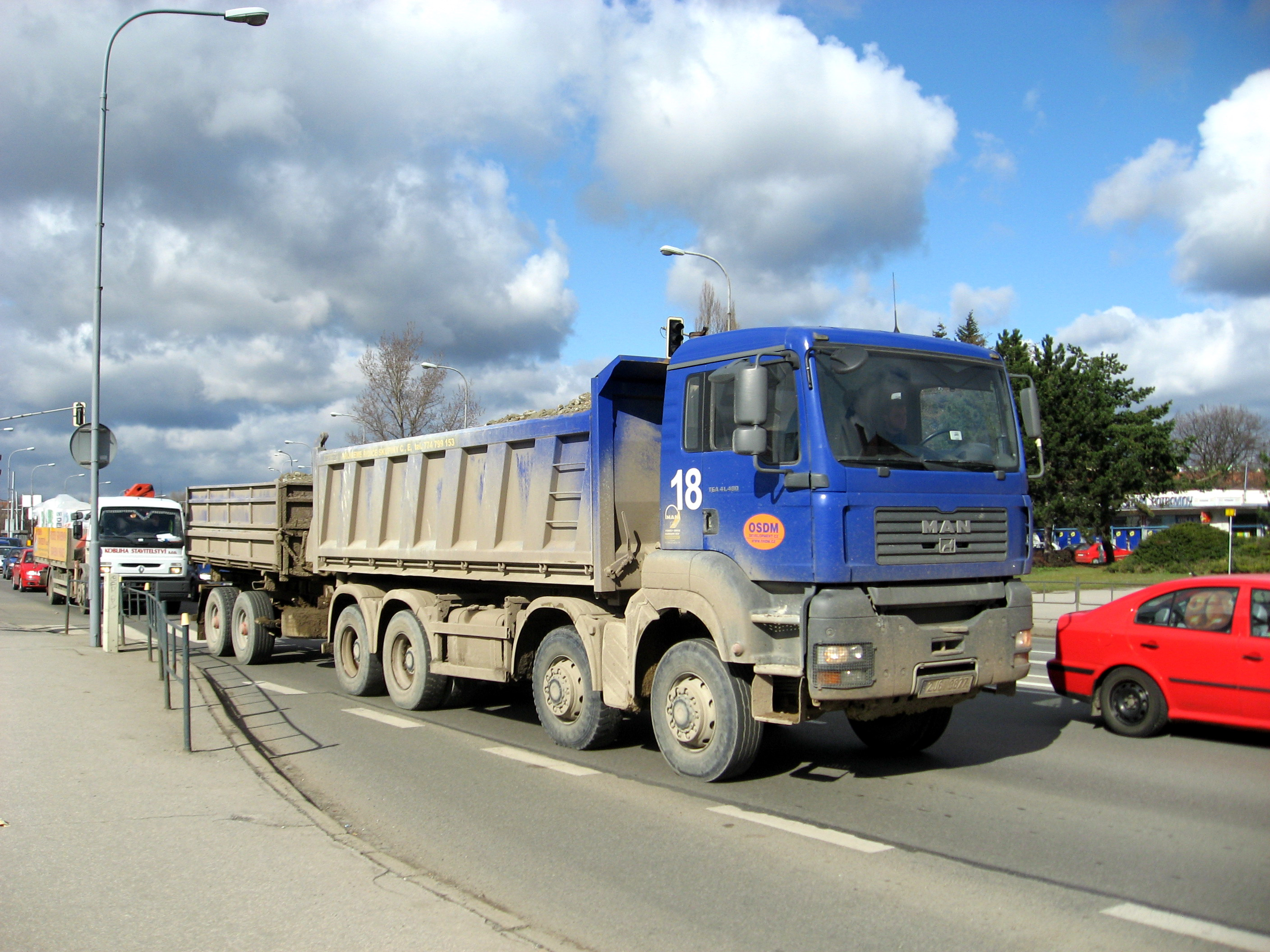 MAN TGA 41.480 truck in Czech Republic.